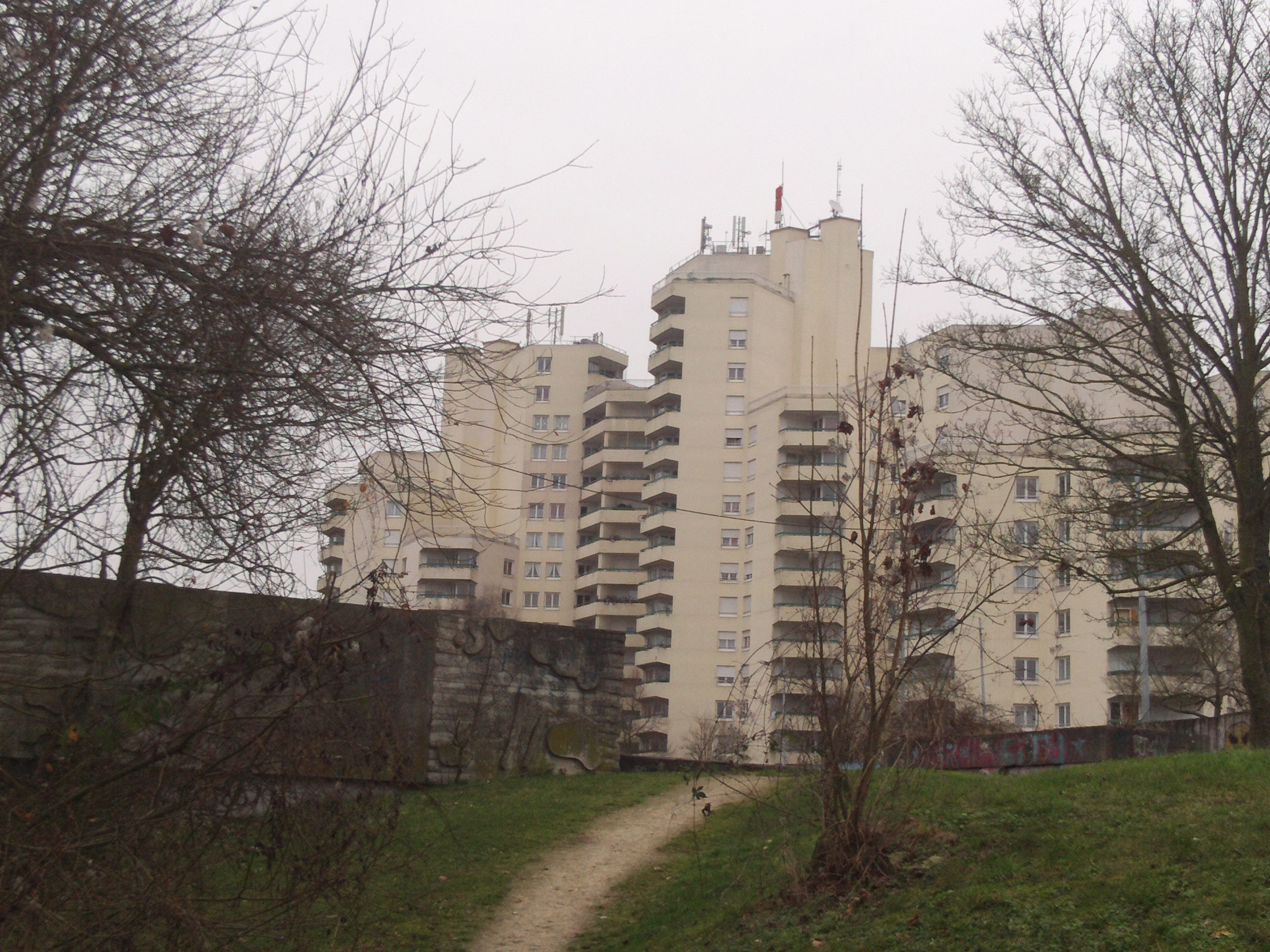 oise 3